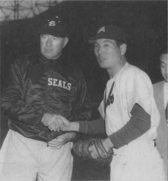 Lefty O'Doul (San Francisco Seals manager) and Kazuto Yamamoto(Tsuruoka) (Nankai Hawks player-manager).